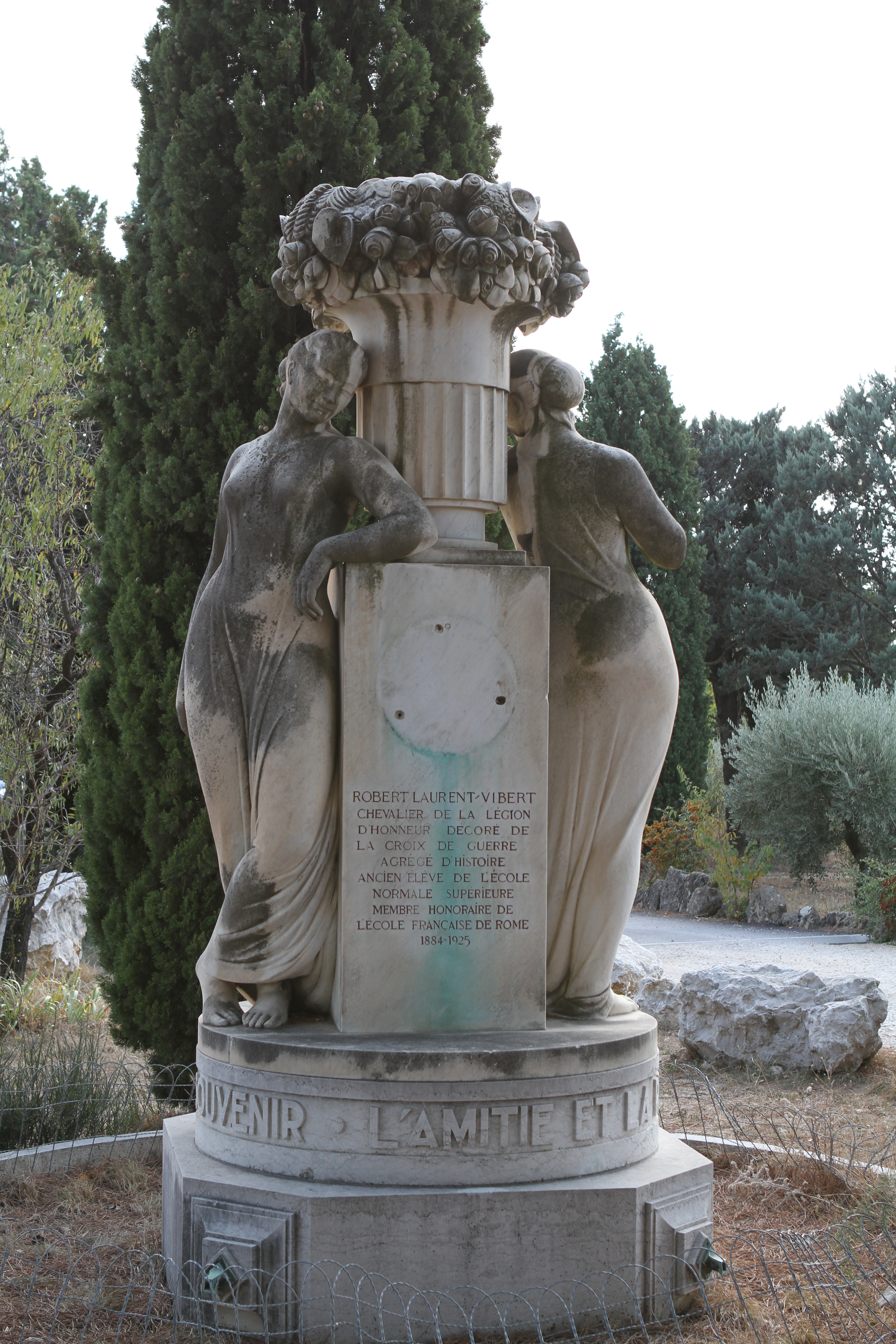 Statue dedicated to Robert Laurent-Vibert, near Lourmarin Castle (Vaucluse, France)